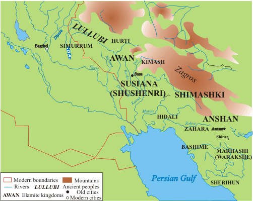 Map of Elam